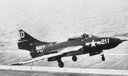 A U.S. Navy Grumman F8F-8 Cougar of Fighter Squadron VF-122 "Black Angels" landing aboard the aircraft carrier USS Shangri-La (CVA-38). VF-122 was assigned to Air Task Group 3 (ATG-3) aboard the Shangri-La for a deployment to the Western Pacific from 5 January to 23 June 1956.